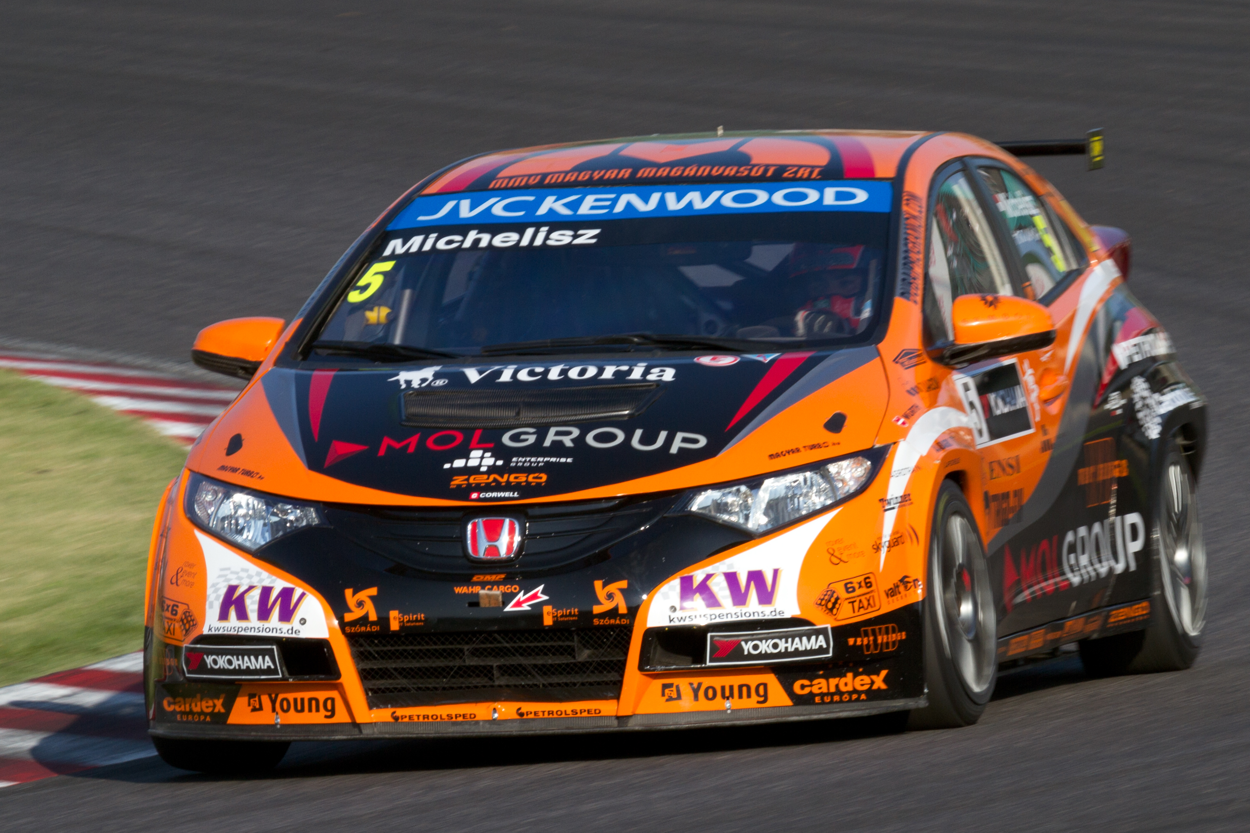 World Touring Car Championship 2013 Race of Japan: Norbert Michelisz (Zengő Motorsport)